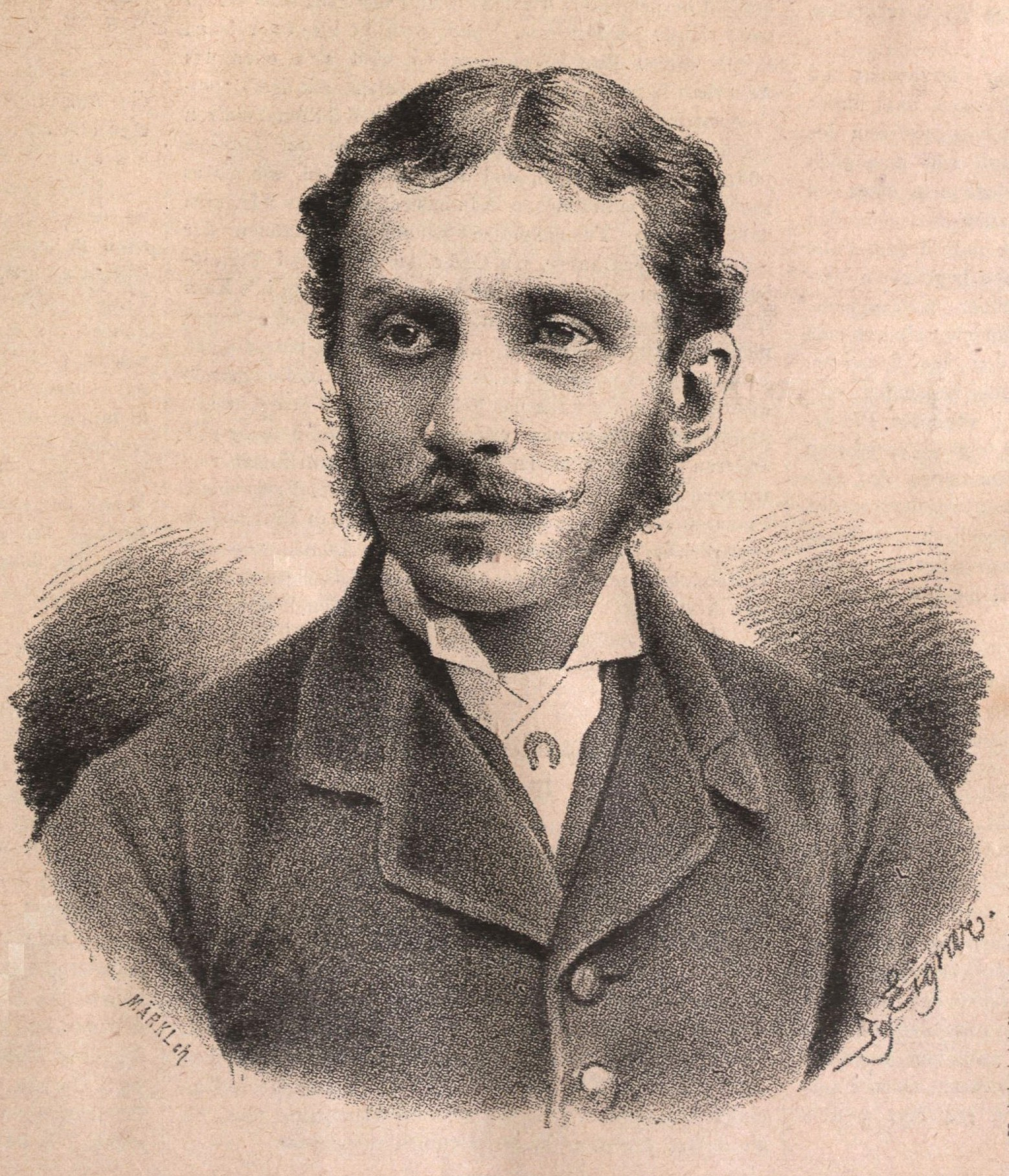 Portrait of Aristides Baltazzi (1853-1914), Austrian horse-breeder